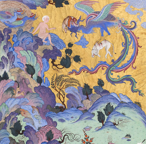 Detail from ""Zal is Sighted by a Caravan", fol. 62v" (Page from Tahmasp Shahnamah) showing simurgh feeding its chicks and Zal in its nest.